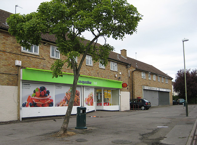 Hester's Way Post Office And Co-operative shop. Hester's Way Road, Cheltenham.